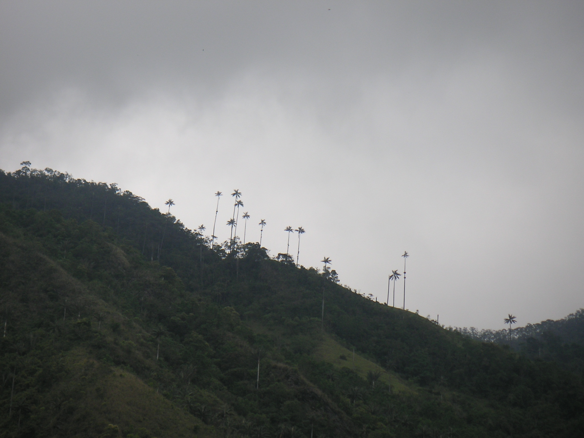 Comment: GRIN gives me three possible 'wax palms': . Ceroxylon alpinum Bonpl. ex DC. (wax palm) . Copernicia prunifera (Mill.) H. E. Moore (carnauba-wax palm, wax palm) . Cyrtostachys renda Blume (sealing wax palm) ...only the first of which lives in Colombia, and they don't look much different than Google photos. Can someone confirm this is Ceroxylon alpinum? -- Ayacop 09:03, 13 October 2006 (UTC) probably Ceroxylon quindiuense which is endemic in Colombia ([1]). --darina 07:32, 20 October 2006 (UTC) I agree, probably Ceroxylon quindiuense see here --Esculapio 12:27, 11 March 2007 (UTC) Description: Wachspalmen, Departamento de Quindio, Kolumbien Source: Louise Wolff (darina), March 2005